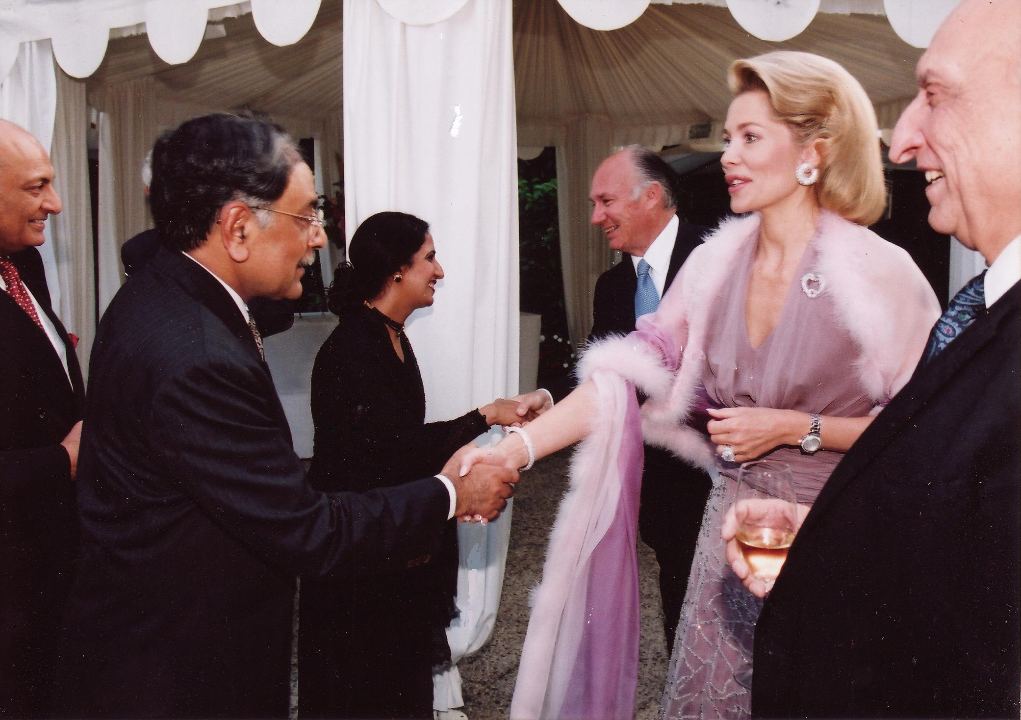 I have taken this picture and I release it to the public domain Description= Musa Javed Chohan, Naela Chohan, Aga Khan IV, Inaara Aga Khan, and Sahibzada Yaqub Khan; Paris 2002.